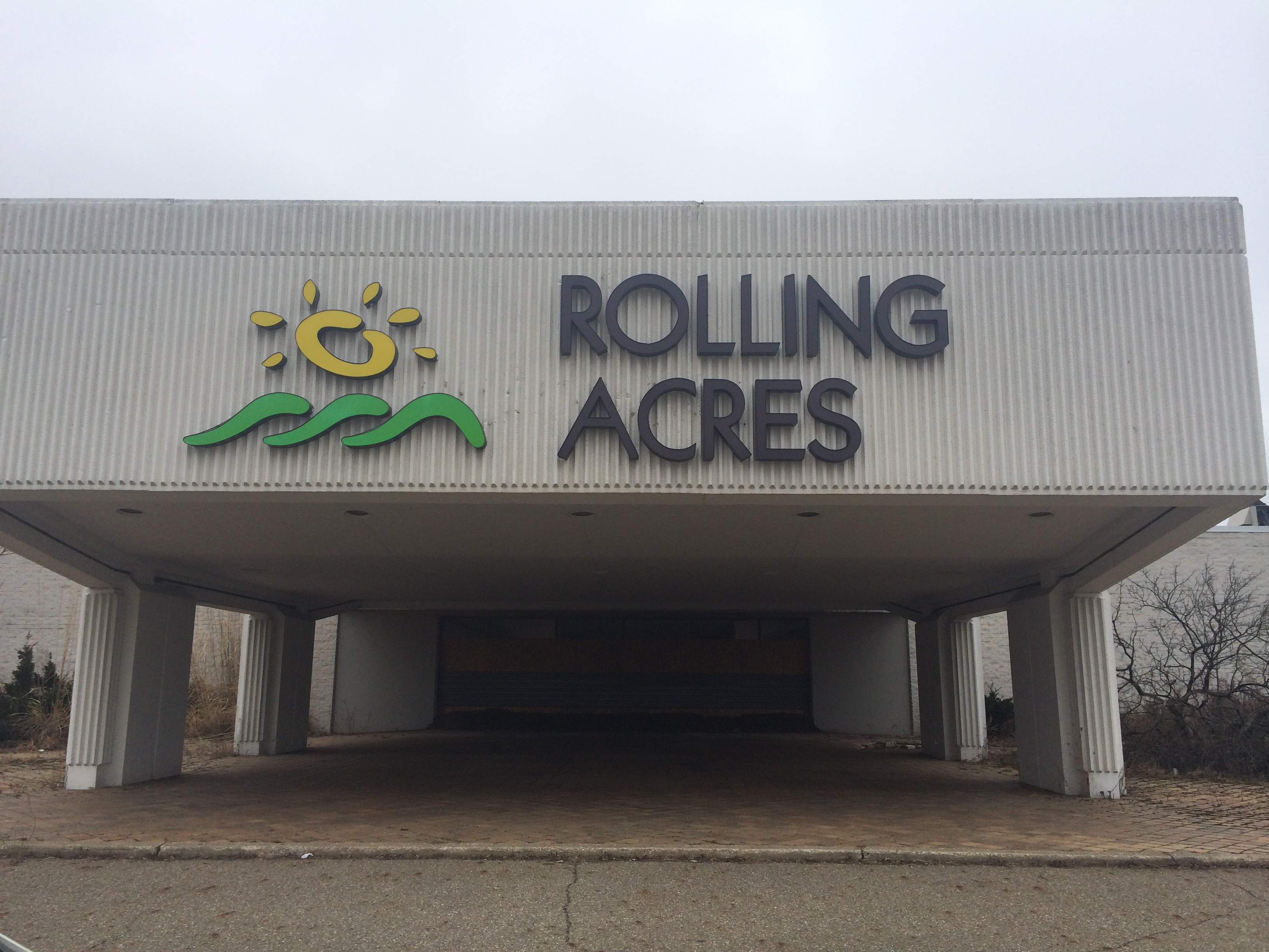 Entrance to the abandoned Rolling Acres Mall in Akron, OH, on Saturday, March 29th, 2014.